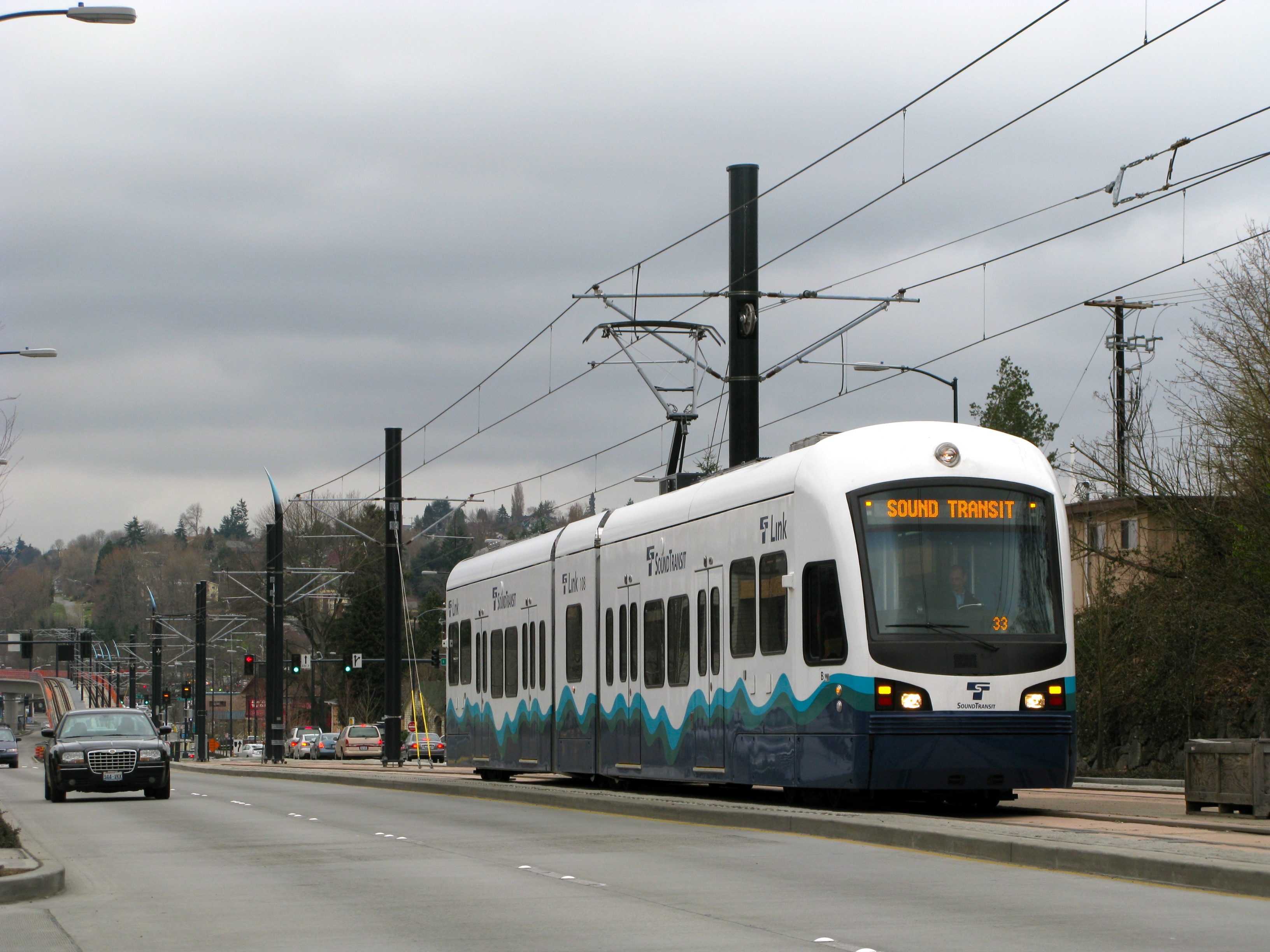 Photographed during testing prior to opening, between Mount Baker and Columbia City stations.